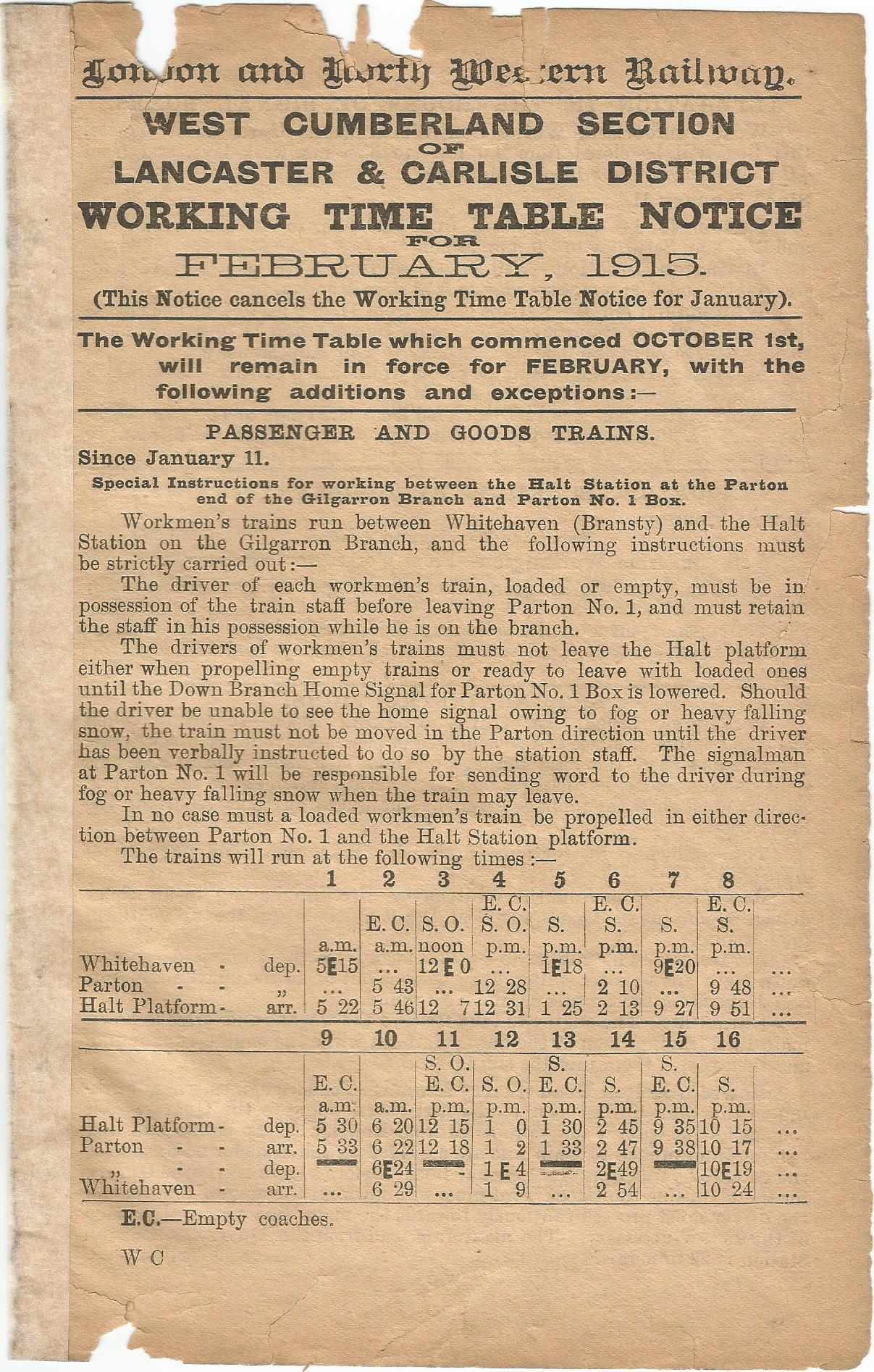 The internal LNWR Working Timetable for Parton Halt in Cumberland, England in 1915. The halt was only ever for "workmen" and was never publicy advertised. It closed in 1927.